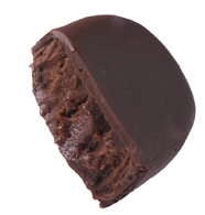 Chocolat noir artisanl au piment d'espelette